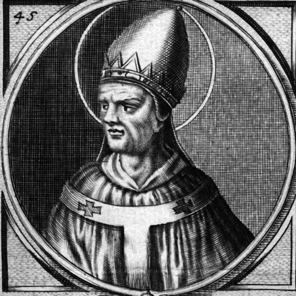 One old picture of Pope Sixtus III